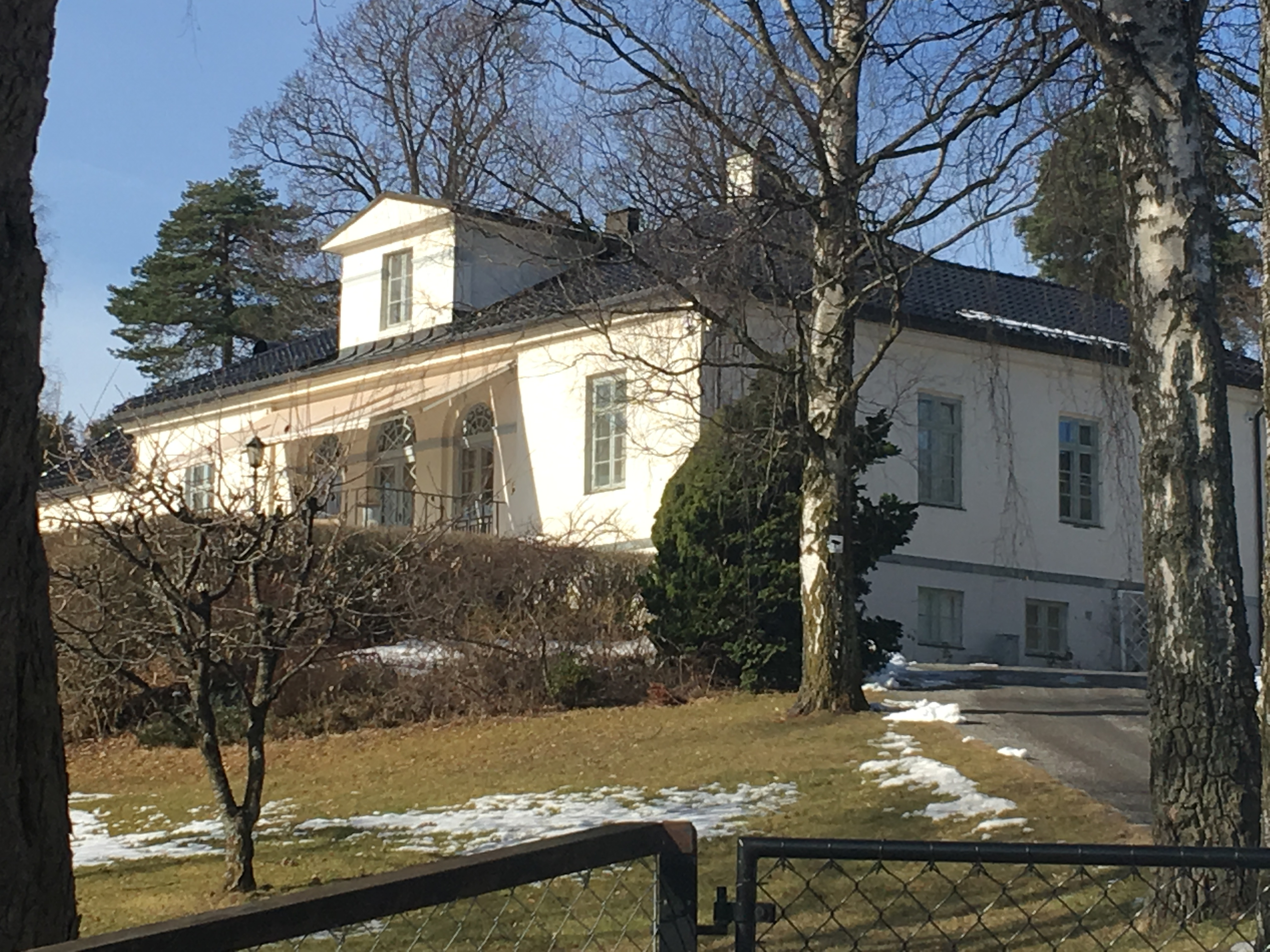 Montebello, a traditional manor in western part of Oslo, Norway